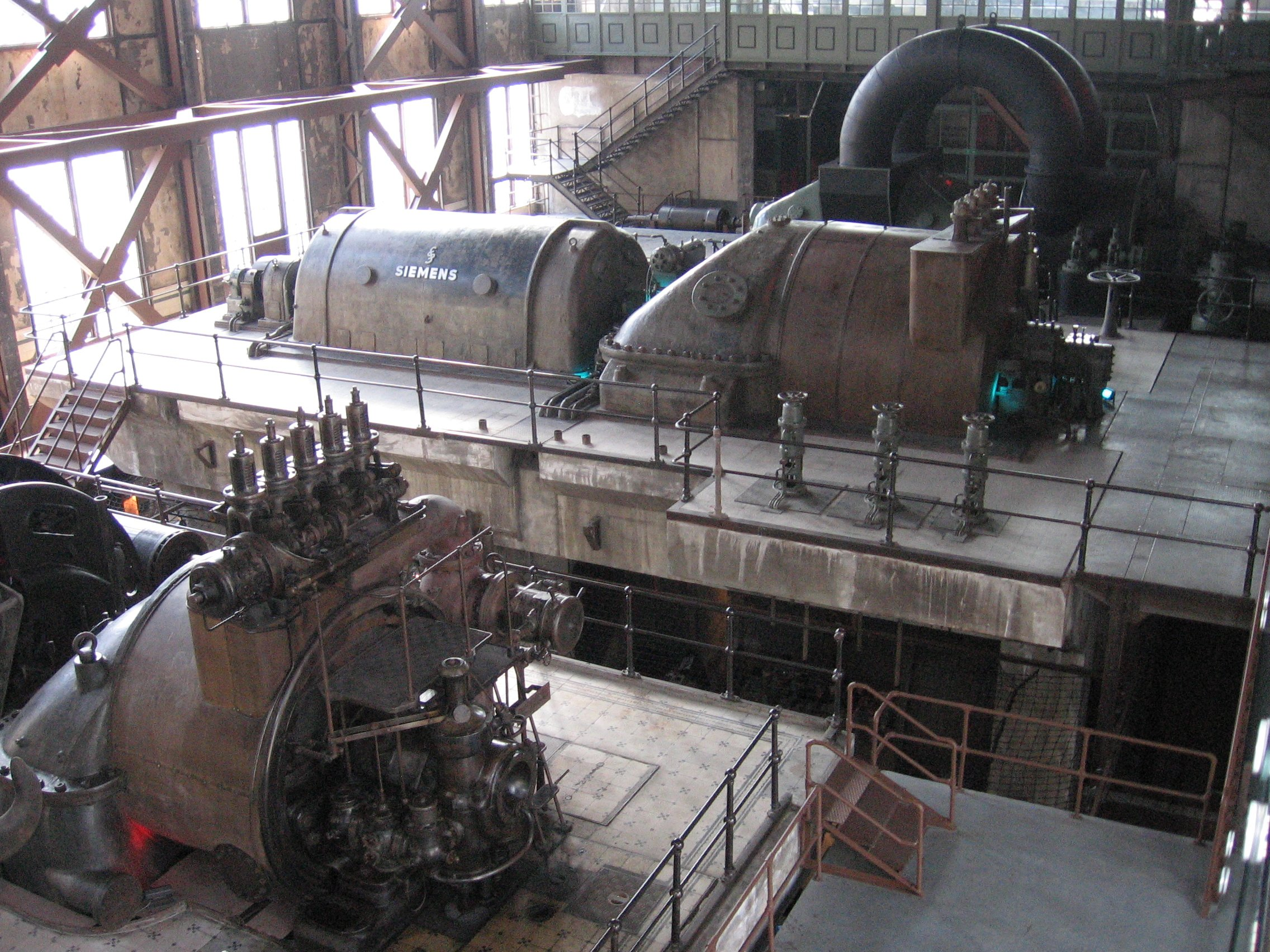 Santralİstanbul energy museum - turbine hall